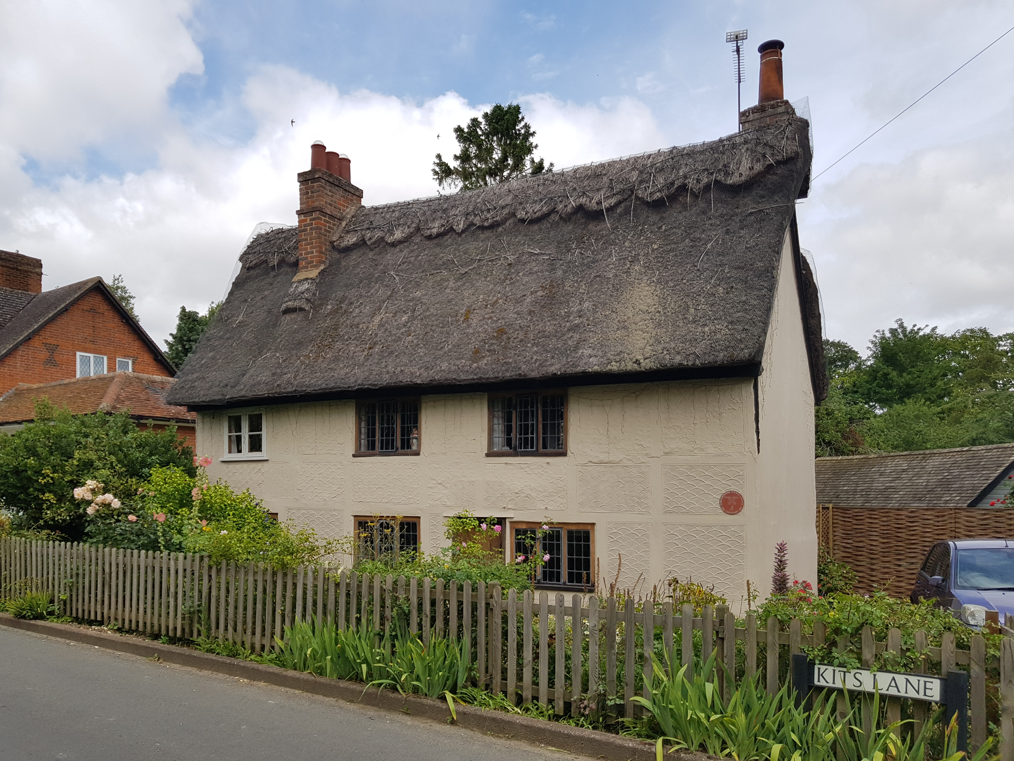 No 2 Kits Lane, Wallington. Where George Orwell lived from 1936 to 1940.